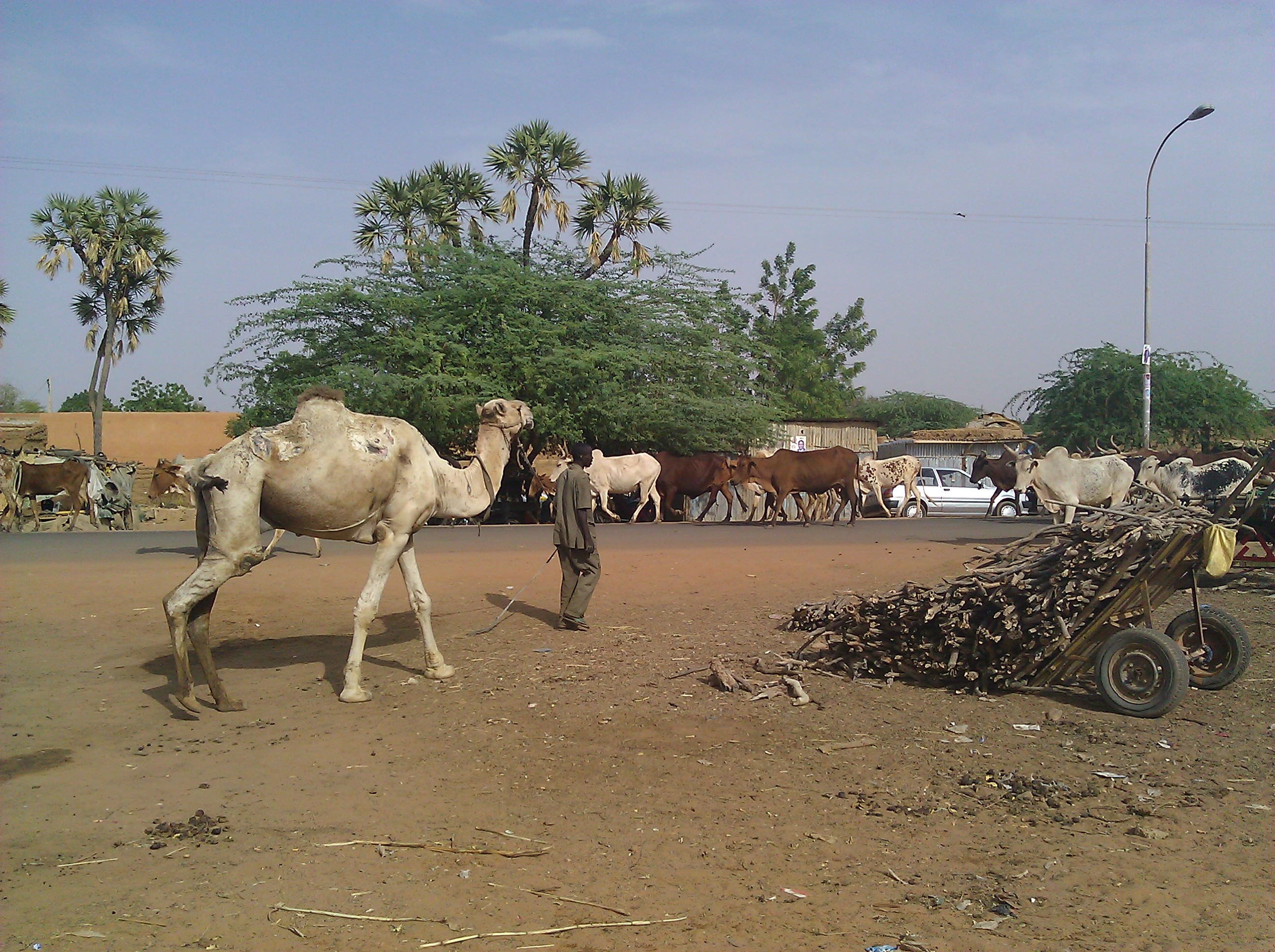 The streets of Niamey